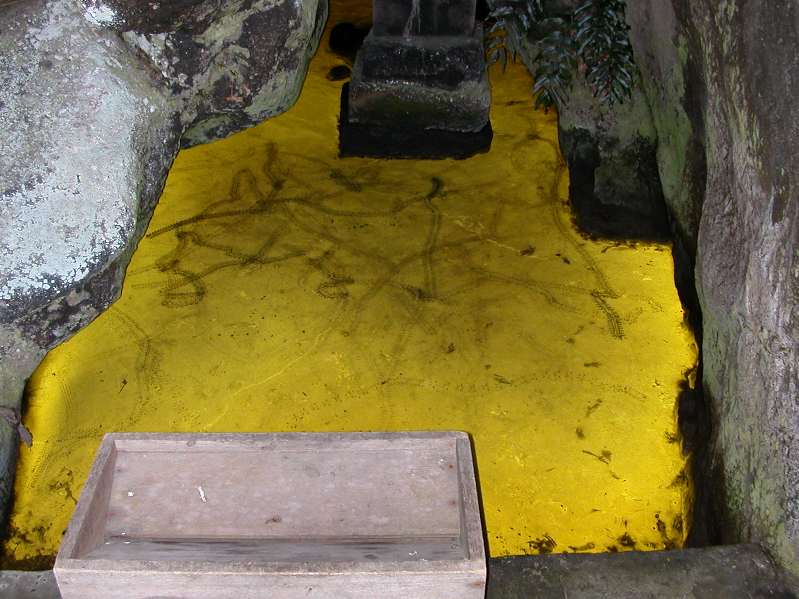 千葉県竹岡・ヒカリモ生息地 Pond of hikarimo in Futtsu, Japan.